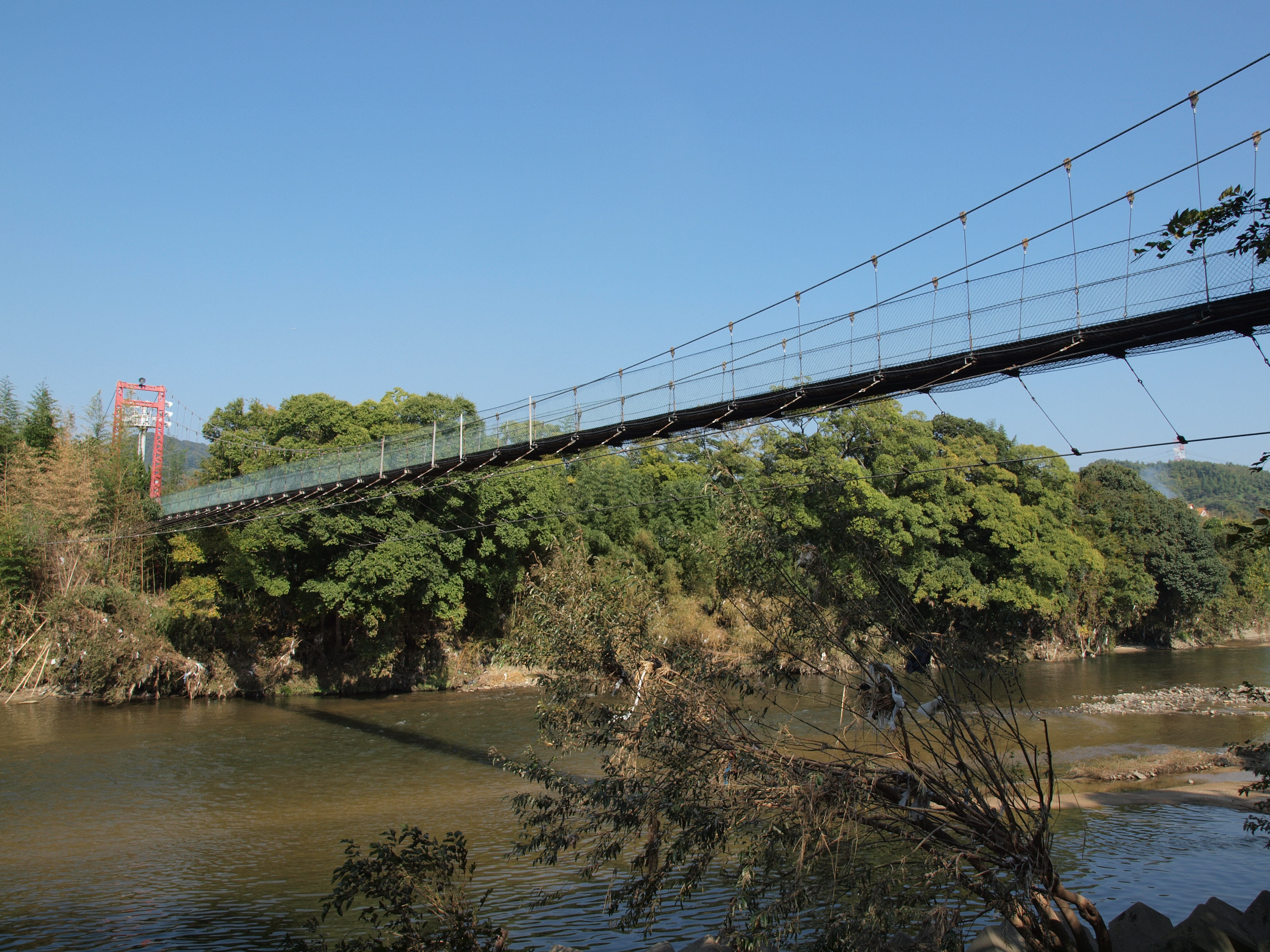 Kawabata-bashi (Bridge), Kashiwara, Osaka